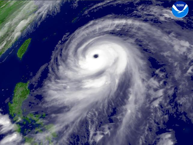 Super Typhoon Dianmu northeast of the Philippines on June 18, 2004. The image from Taken from NOAA's GOES-4 Weather Satellie